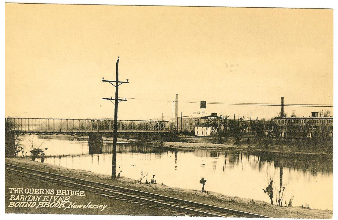 Photo of Queens Bridge, South Bound Brook and Ruberroid complex taken from Bound Brook side of Raritan River